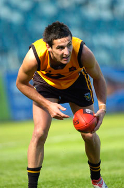 Kane Lucas playing for Western Australia in the 2009 U/18 AFL National Championships